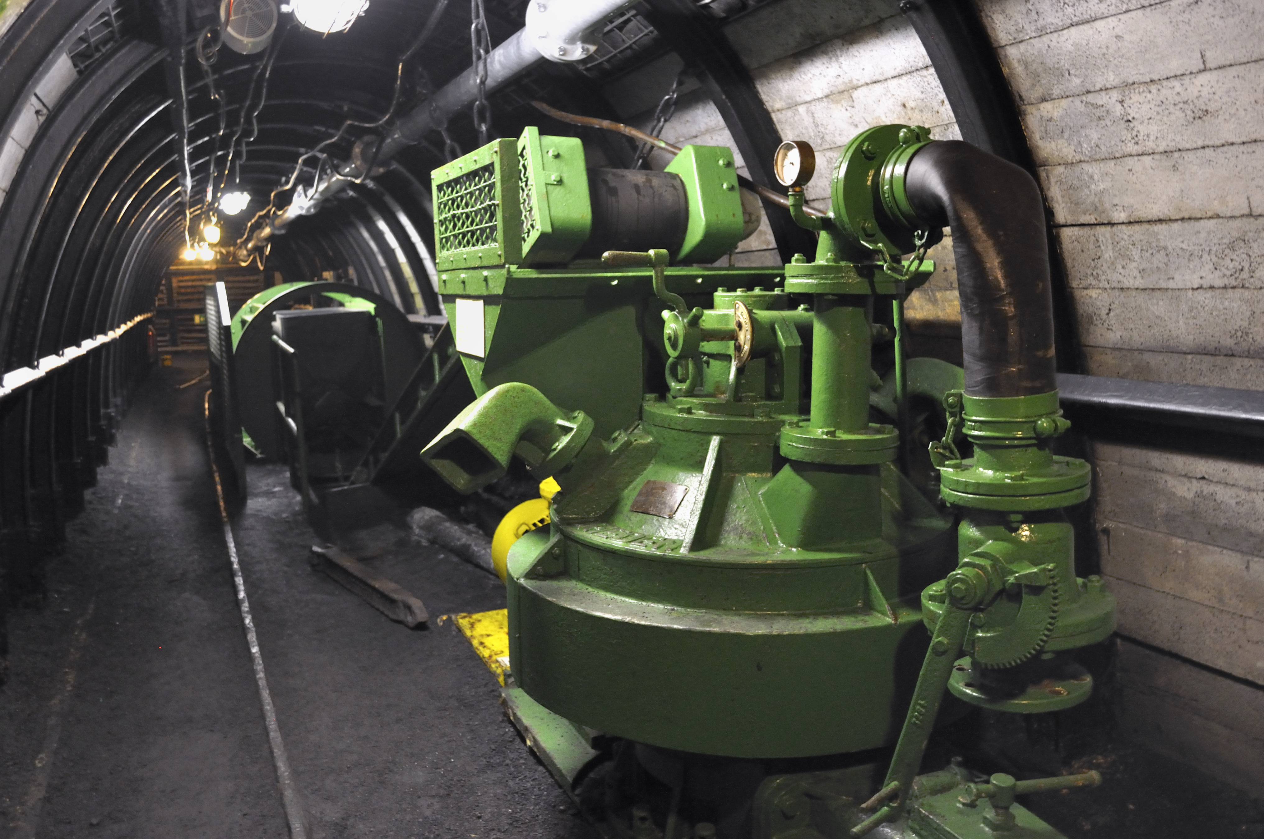 Picture taken in German mining museum Bochum before Duisburg summer meetup.